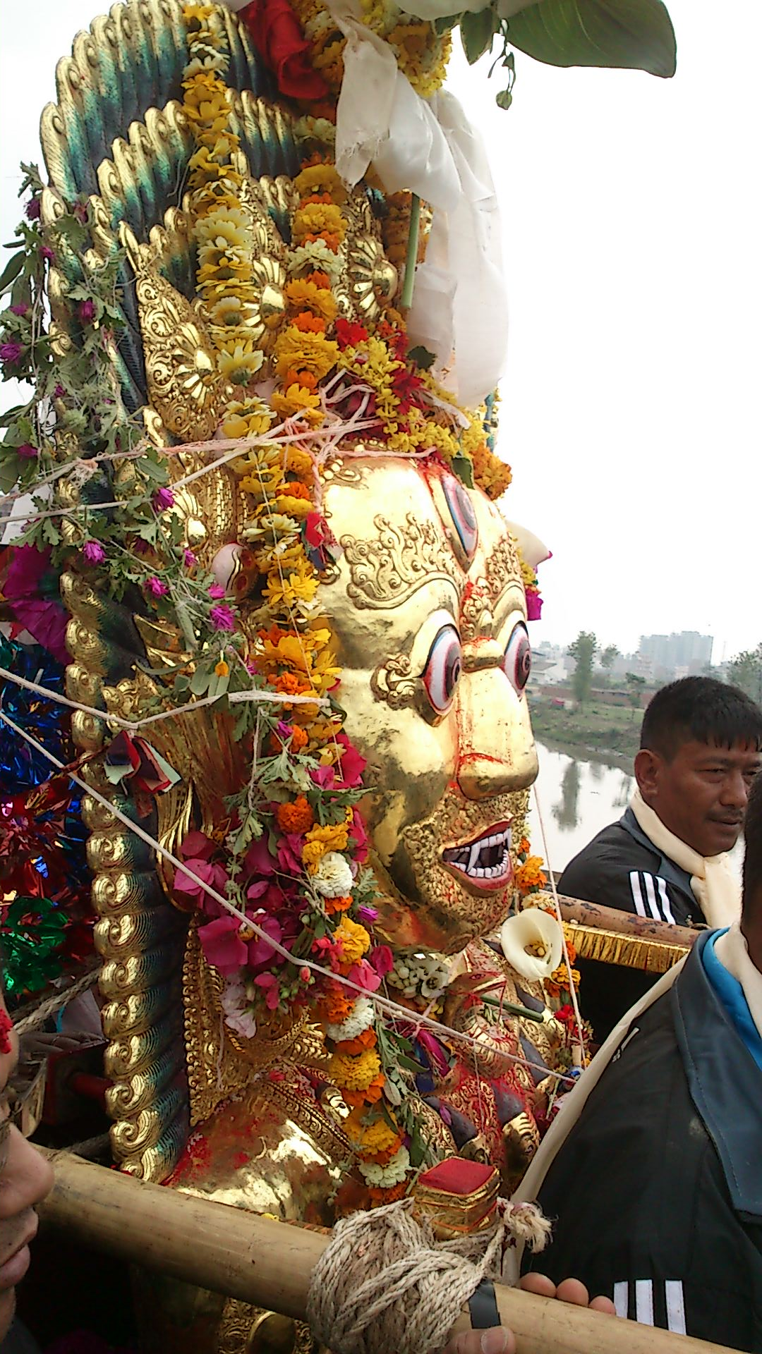 Bhairav mask of Dhaa ma of rato machindranath chariot